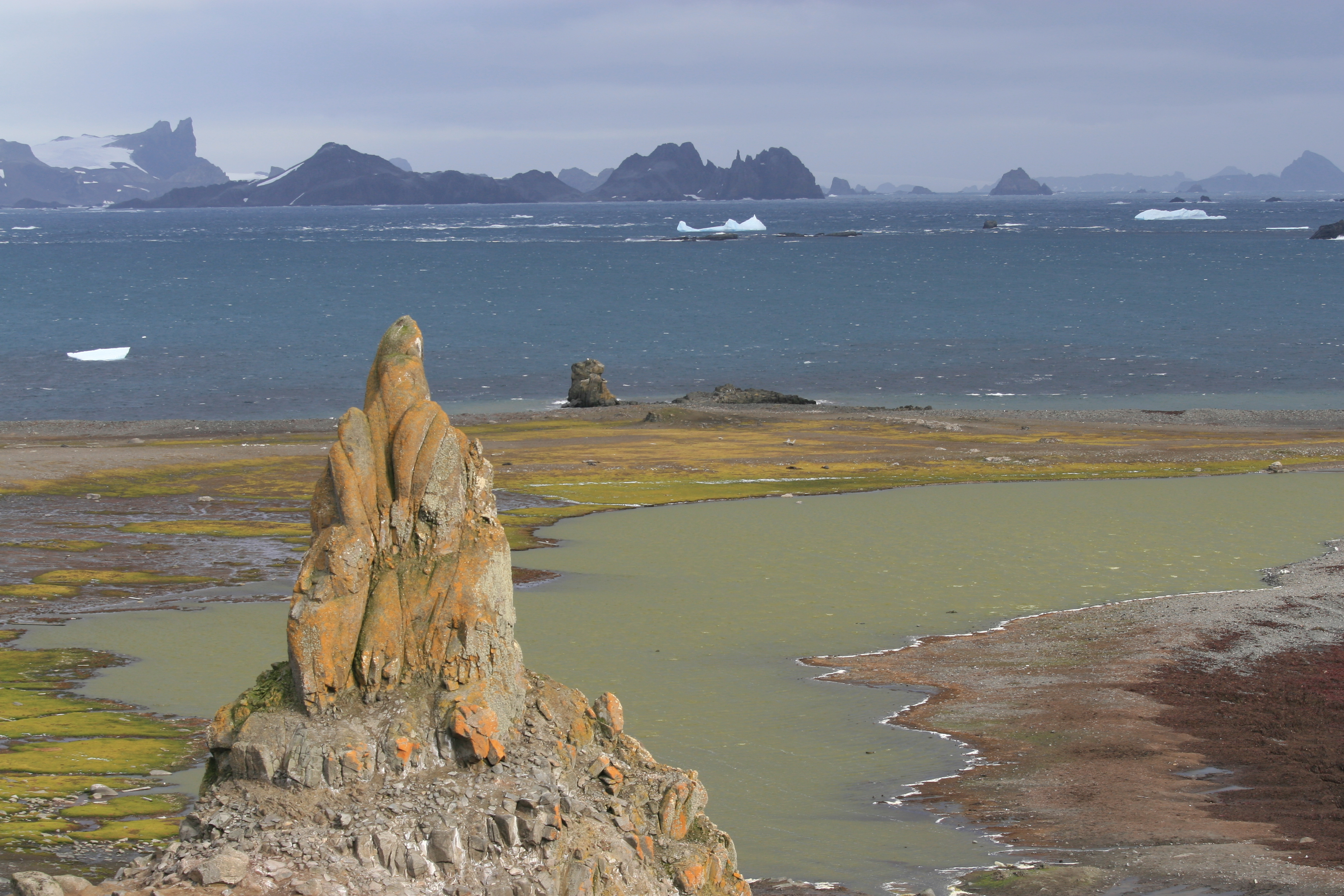 Cold and extremely windy Aitcho Island